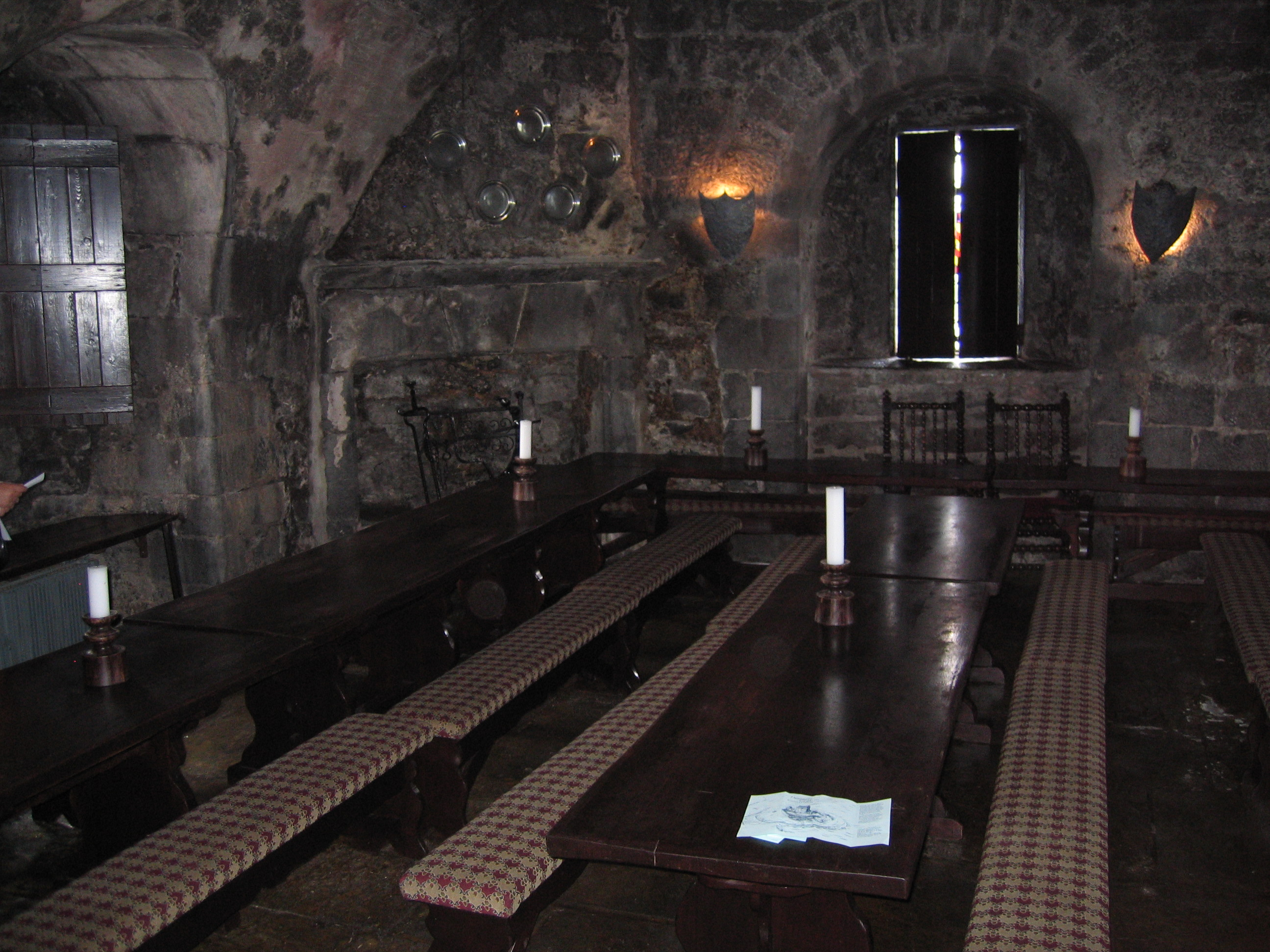 room in Dunguaire Castle